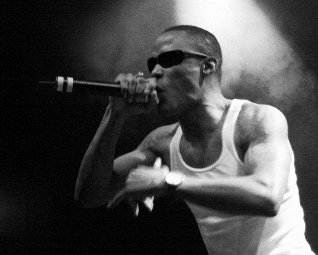 Canibus performing in Amager Bio, Denmark.